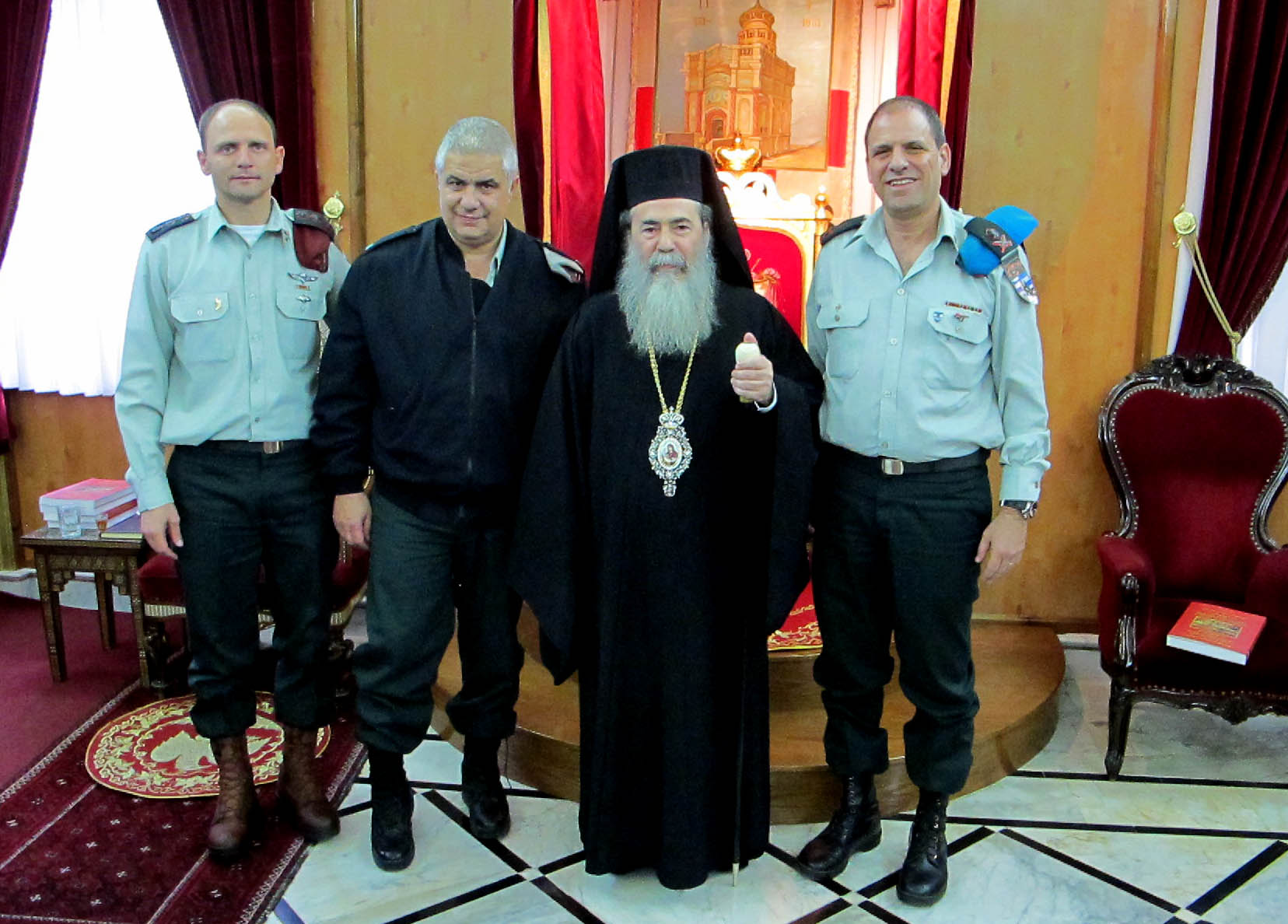 December 21, 2011 Today, the Coordinator of Government Activities in the Territories (COGAT), Maj. Gen. Eitan Dangot, head of the Civil Administration in Judea and Samaria, Brig. Gen. Moti Elmuz and other representatives from COGAT, met this morning with Patriarchs and church leaders on the occasion of the upcoming Christmas holiday. They wished them a happy new year and outlined the preparations and arrangements made by the civil administration ahead of Christmas ceremonies. Photo by the COGAT Filming Unit. Featured as photo of the day on December 21, 2011. The Israel Defense Forces Facebook page The Israel Defense Forces blog Follow us on Twitter